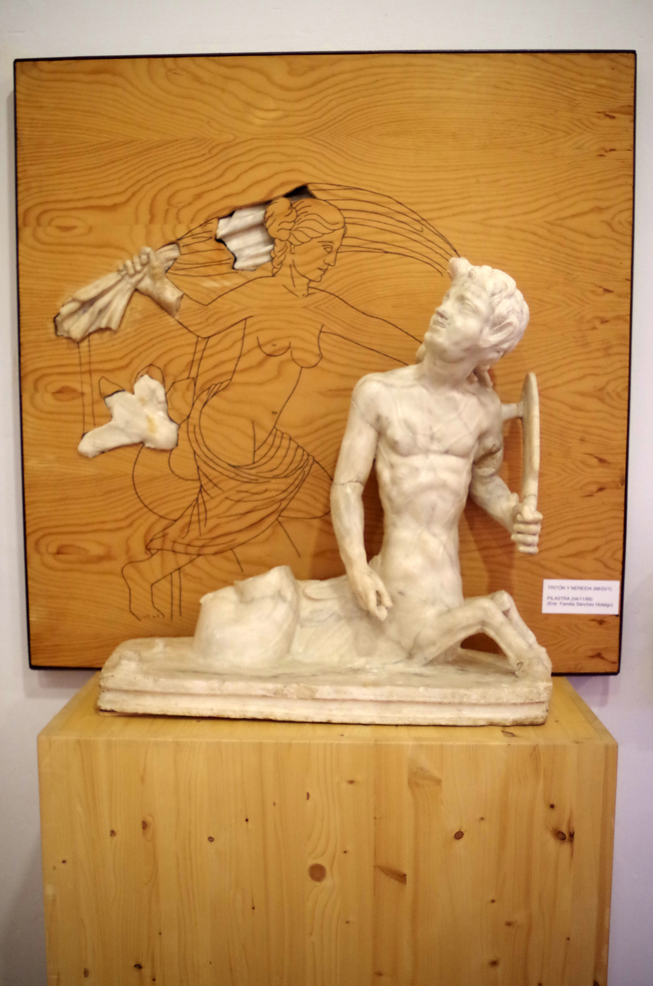 Triton and Nereid, roman sculpture in Ávila Museum (Casa de los Deanes building) (Ávila, Spain).